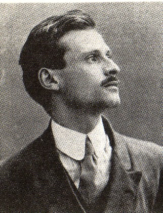 Marino Moretti (1885-1979), Italian poet and writer.